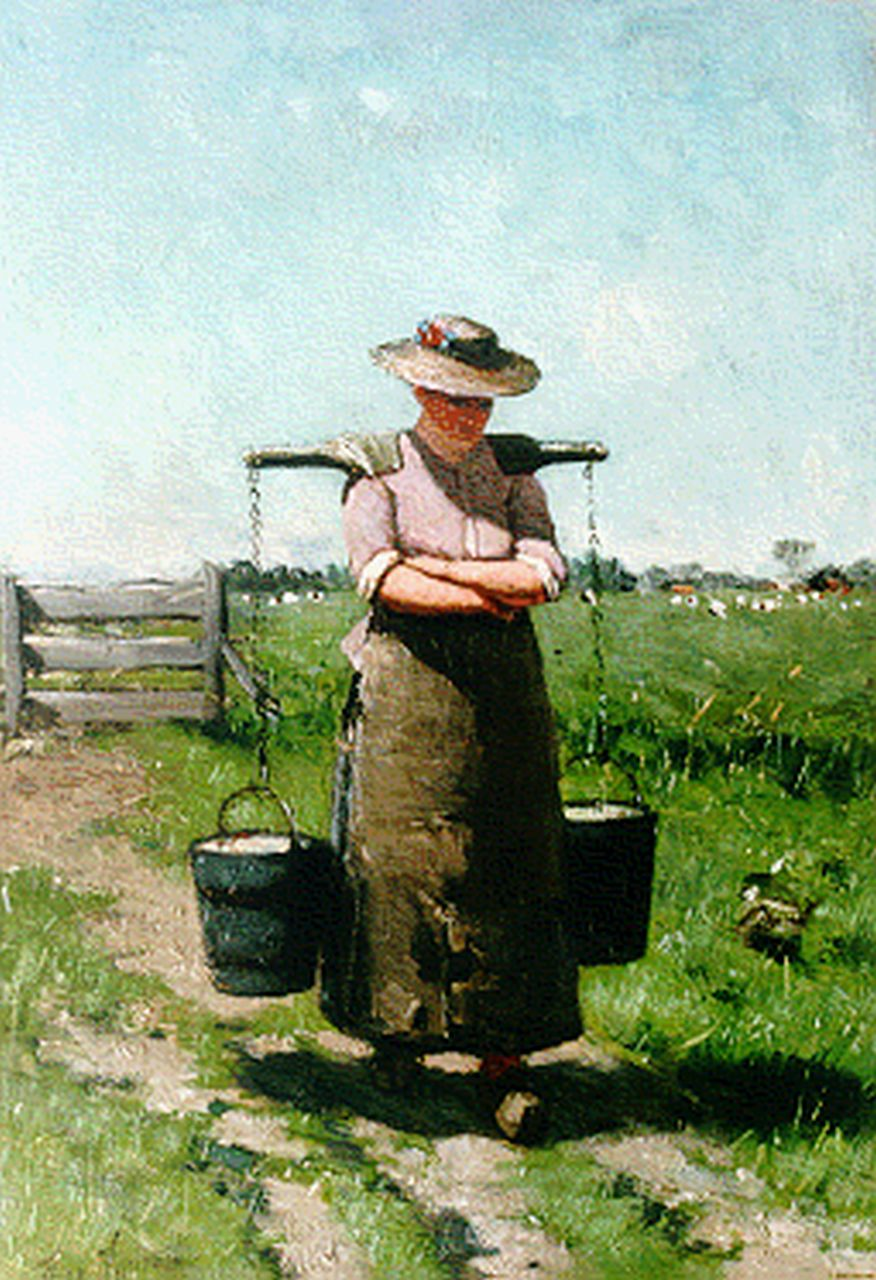 Painting of pensive milkmaid with yoke